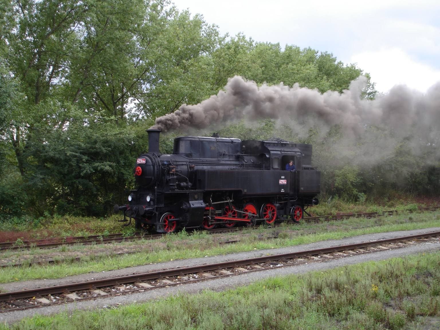 steam lokomotive ČSD 423.0 in station Krupa, Czech Republic